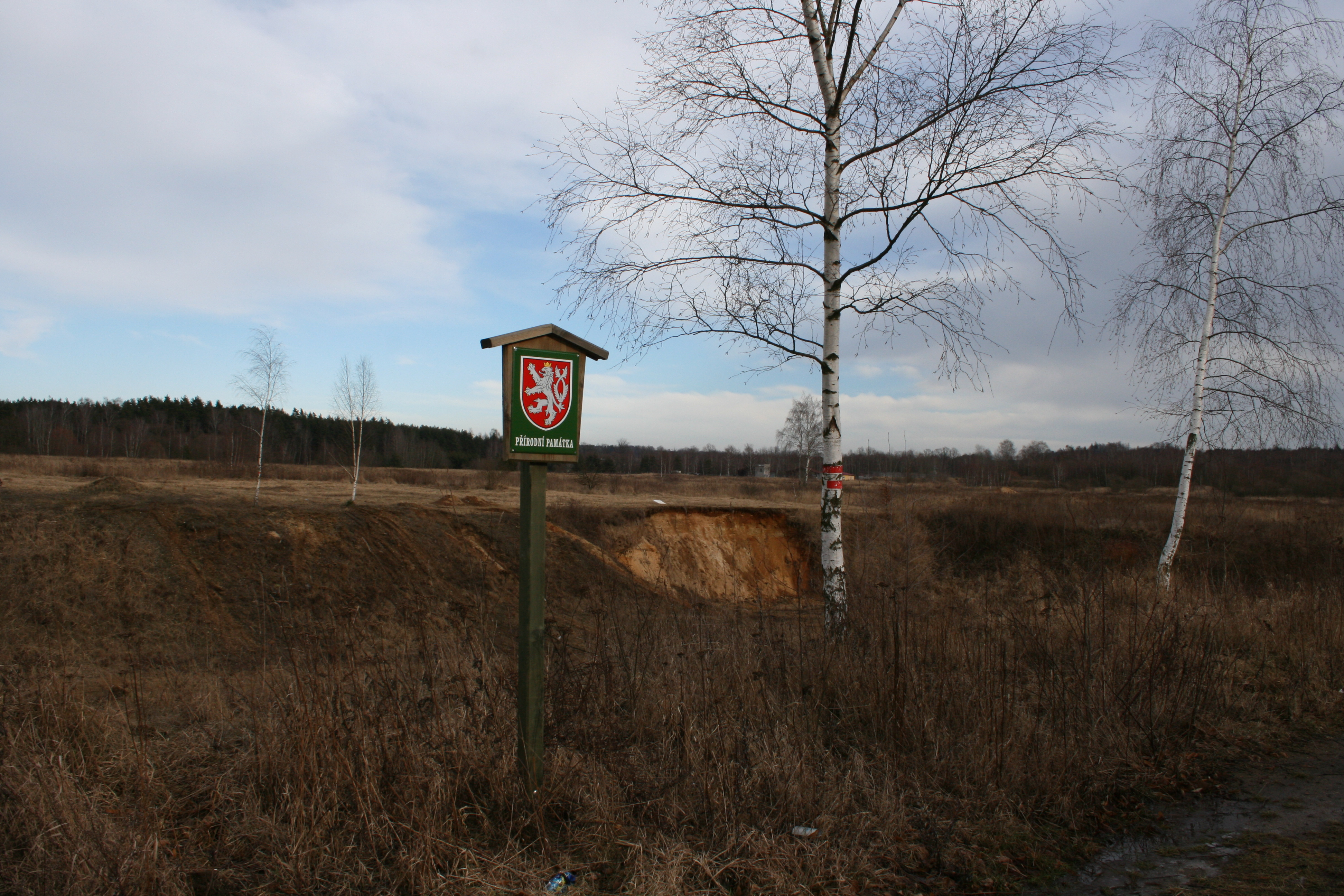 Natural monument Pískovna na cvičišti near to Jindřichův Hradec, Jindřichův Hradec District, Czech Republic.